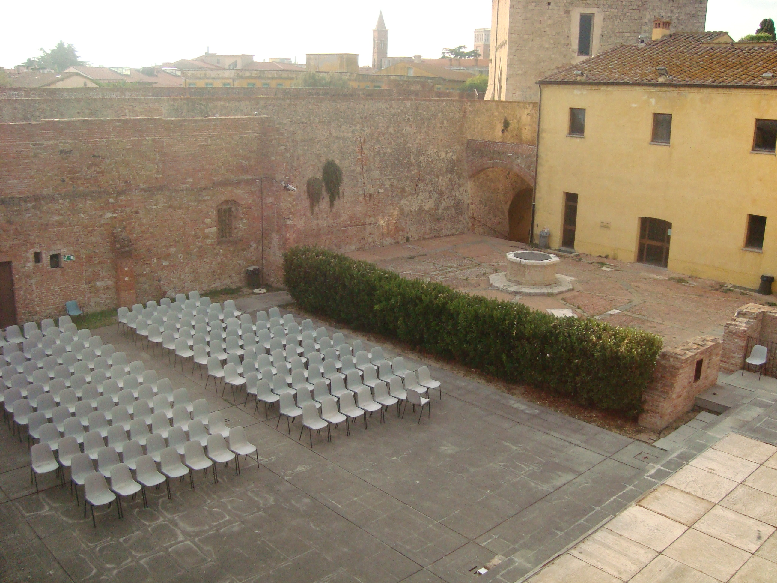 Piazza d'Armi in Grosseto